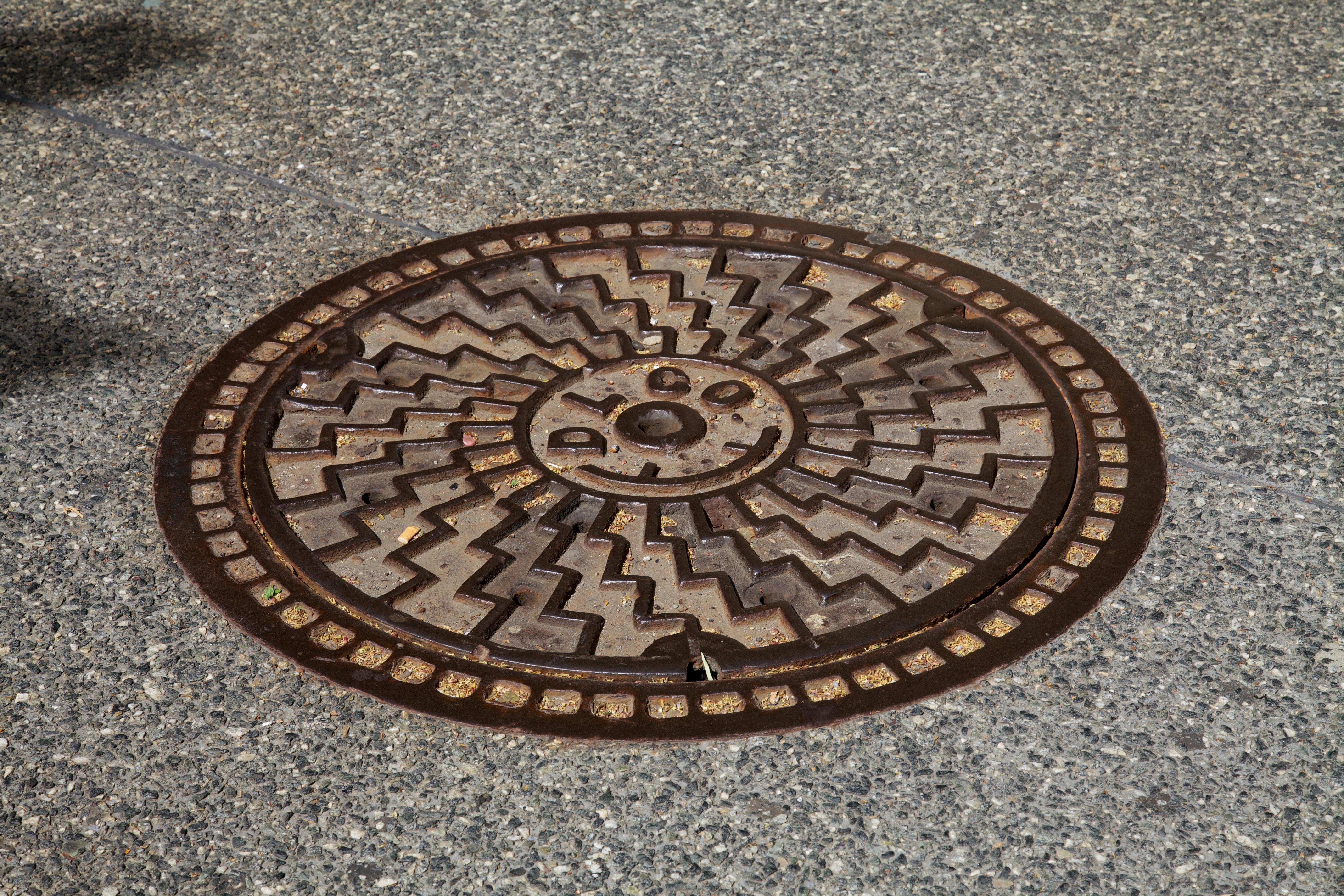 Duquesne Light Company manhole cover. Love the "lightning" design pattern!